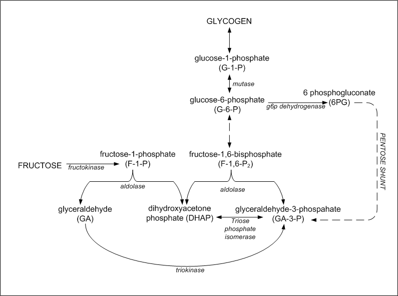 Fructose metabolism to glycogen